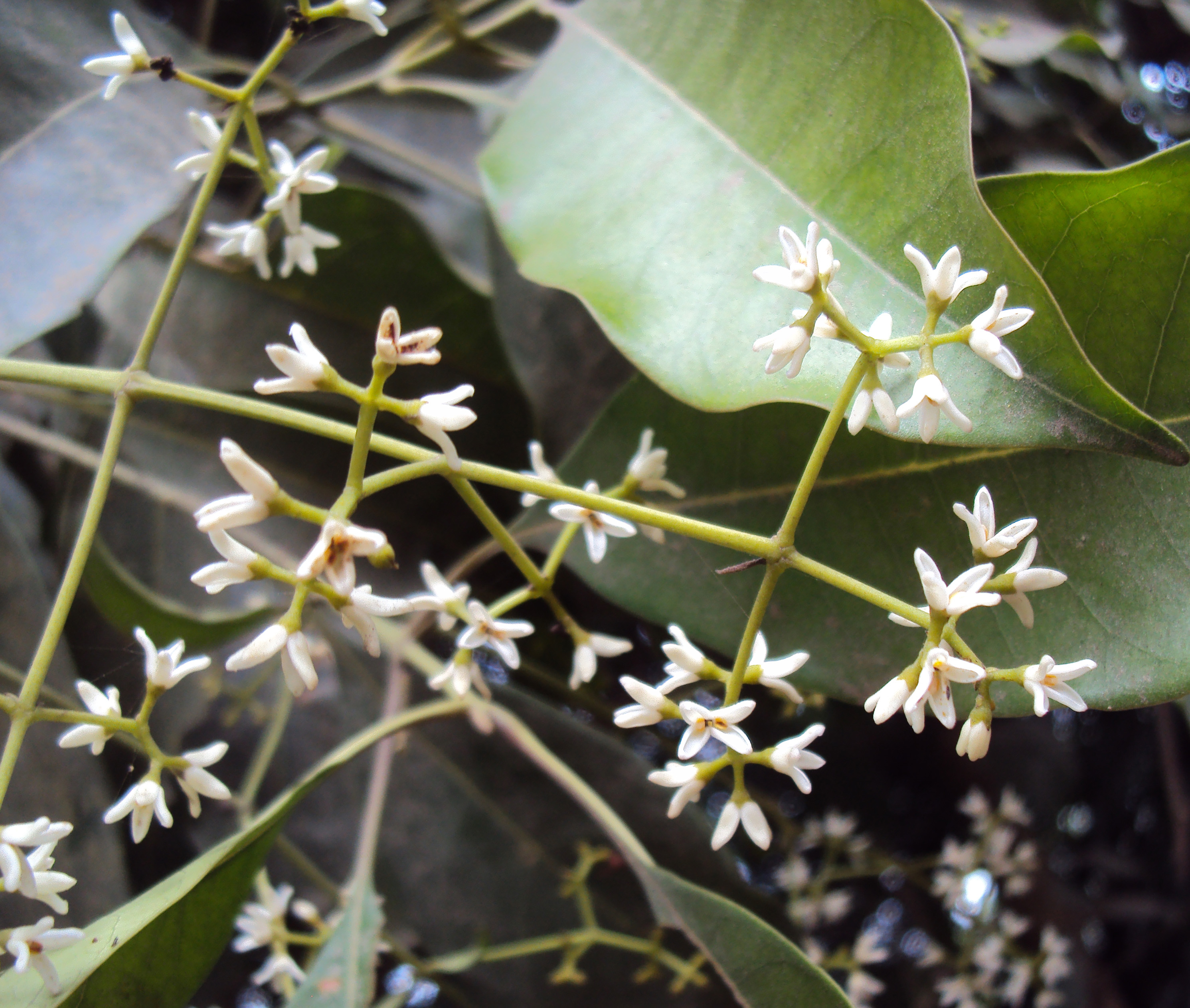 Chionanthus ramiflorus